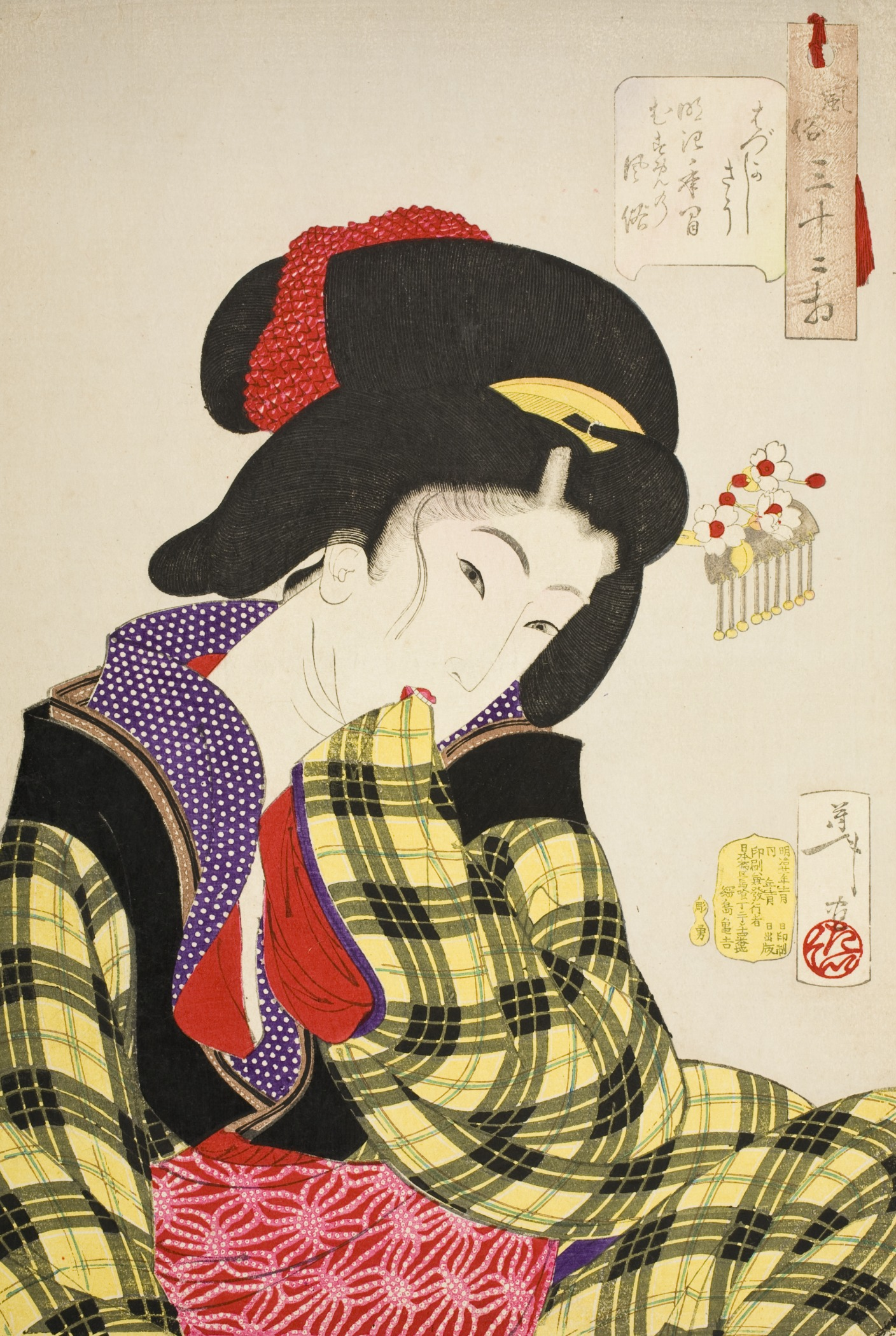 eleventh month, 1888 Alternate Title: Hazukashi-so: Meiji nenkan musume no fuzoku Prints; woodcuts Color woodblock print Image: 14 1/4 x 9 11/16 in. (36.20 x 24.61 cm); Sheet: 14 5/8 x 9 15/16 in. (37.15 x 25.24 cm) Gift of Arthur and Fran Sherwood (M.2007.152.61) Japanese Art